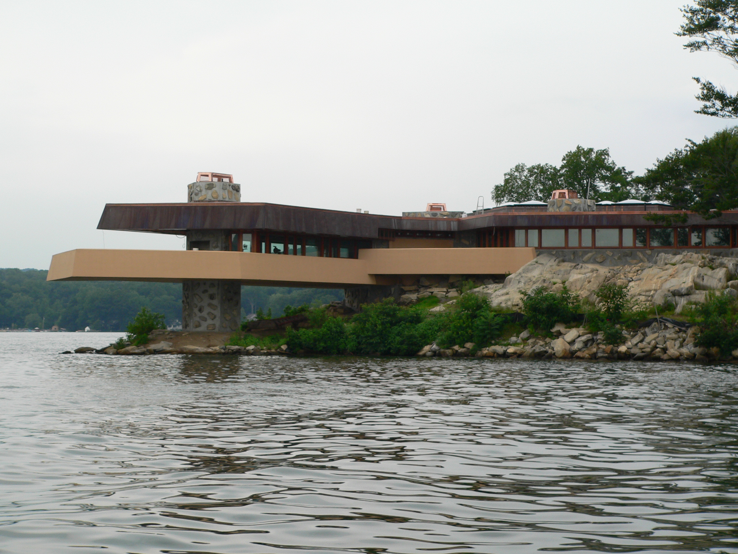 Massaro House, built between 2003 and 2007 on Petra Island, Lake Mahopac, New York.